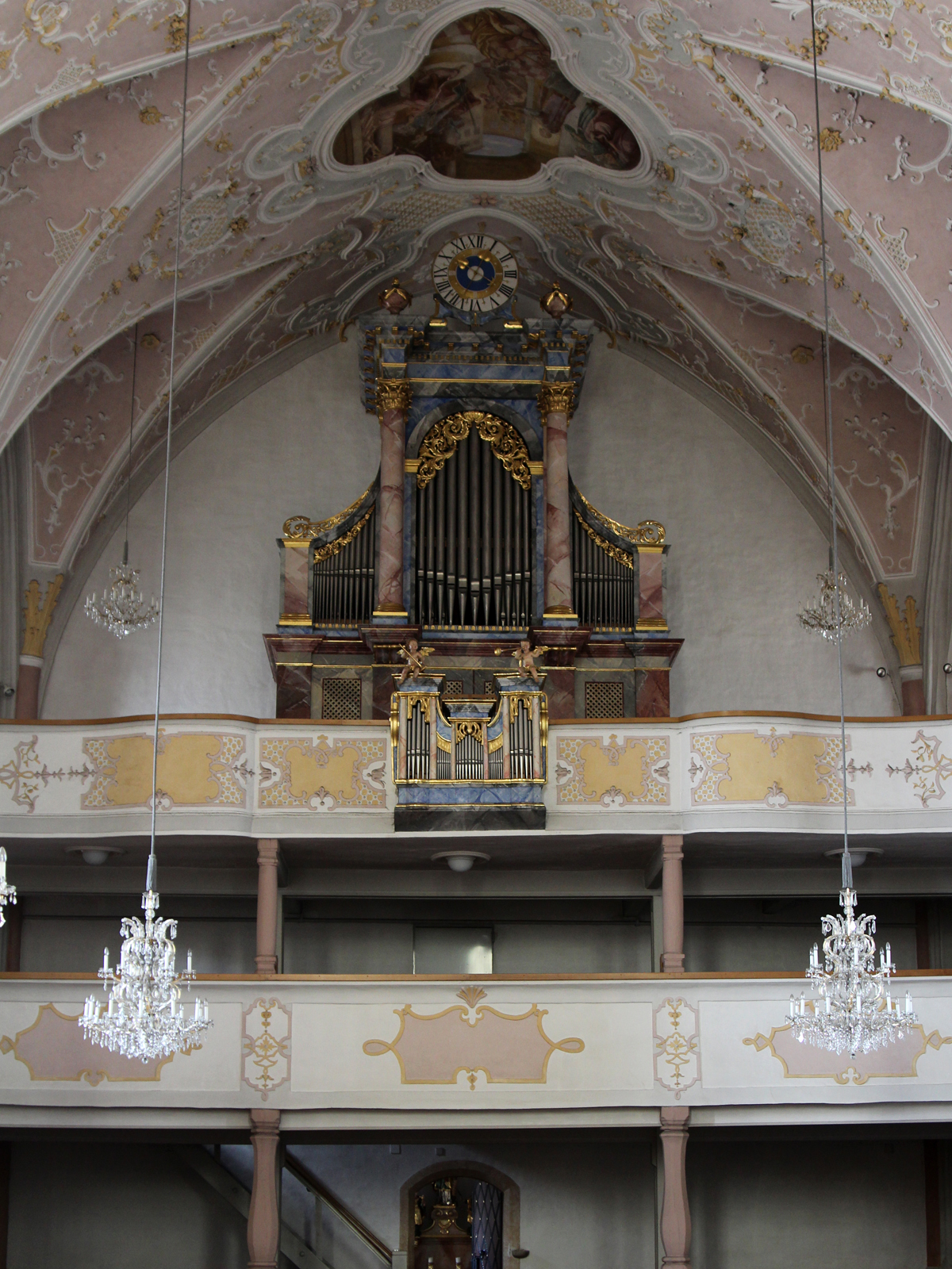 Ludwig Mooser-Orgel der Pfarrkirche St. Laurentius Altheim, OÖ